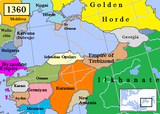 Byzantine Empire, Black Sea area, Anatolia and Caucasus 1360 since sources showed in the discussion file